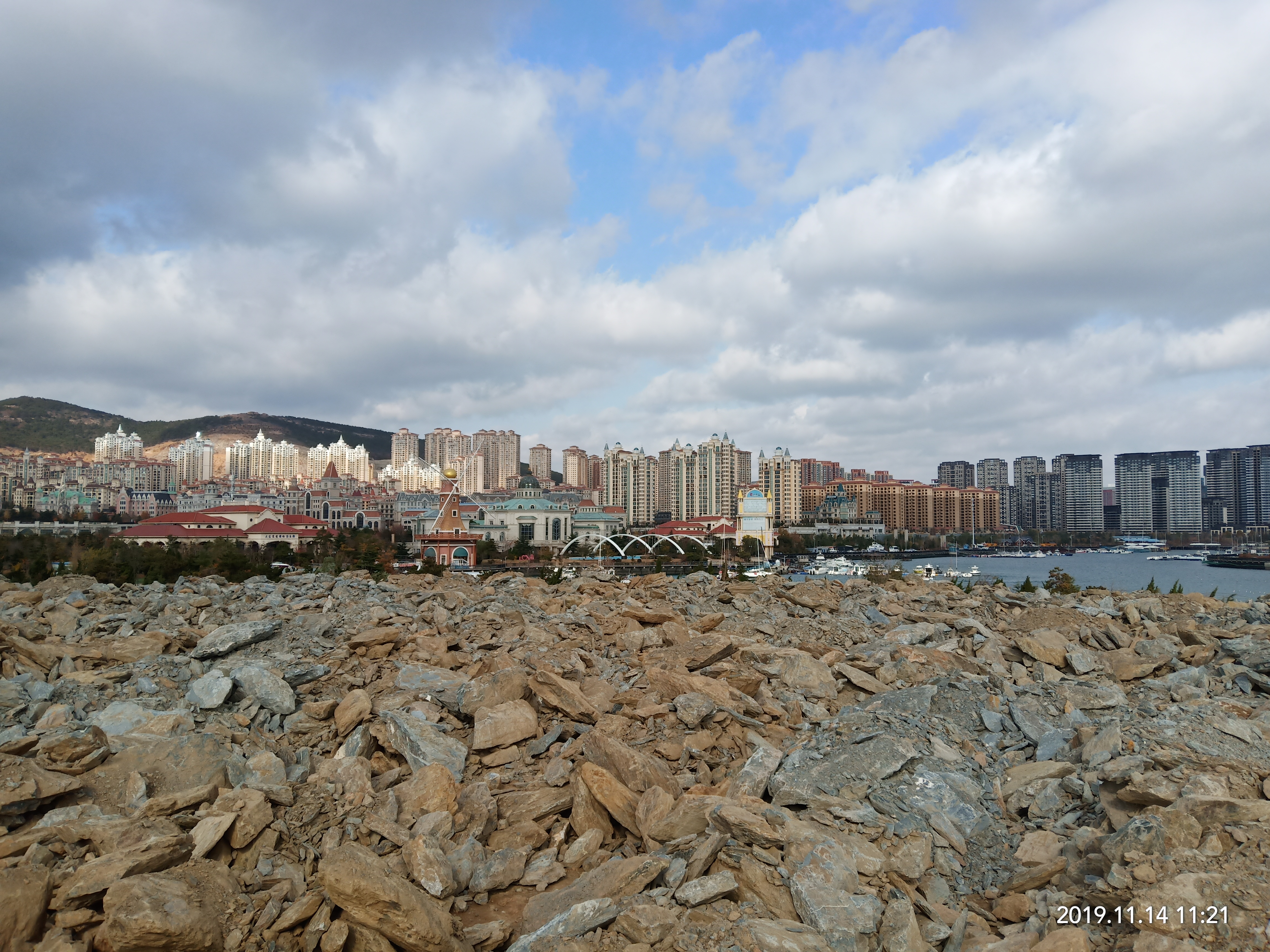 It's after many years... and still under construction... Sometimes, I asked my heart: Jason, is your heart still young... like before and like the Neo-Citylife... I didn't know the answer but the city and its building materials are still there, like a song singing in the wind... My mother preferred this photograph very much, through whom I saw its beauties - 3 layers clearly standing there telling a story in which a city is born, growing and dreaming... The sky is also watching its happening, until its yellowed and aging... That's the case I would like to express... A big impression of its growing...